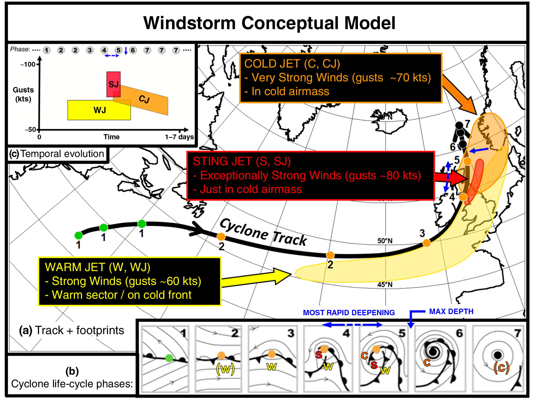 Schematic depicting the nature of and causes of European windstorms. From